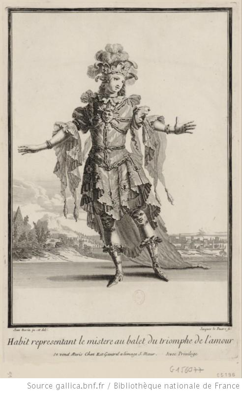 Costume for the ballet "Le Triomphe de l'Amour", Jean Bérain père 1681, Paris.